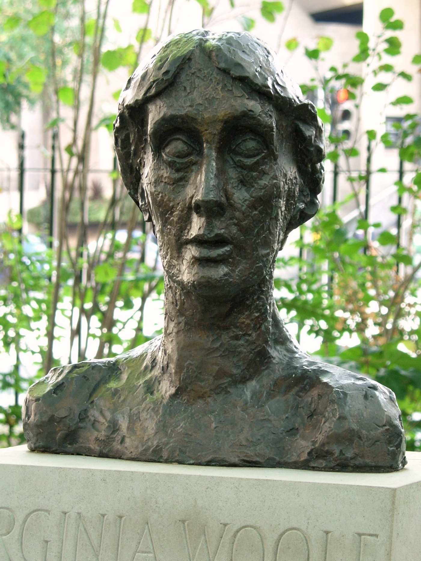 Bust of Virginia Woolf in Tavistock Square, London, by Stephen Tomlin. Erected in 2004, this is a cast of an original of 1931.